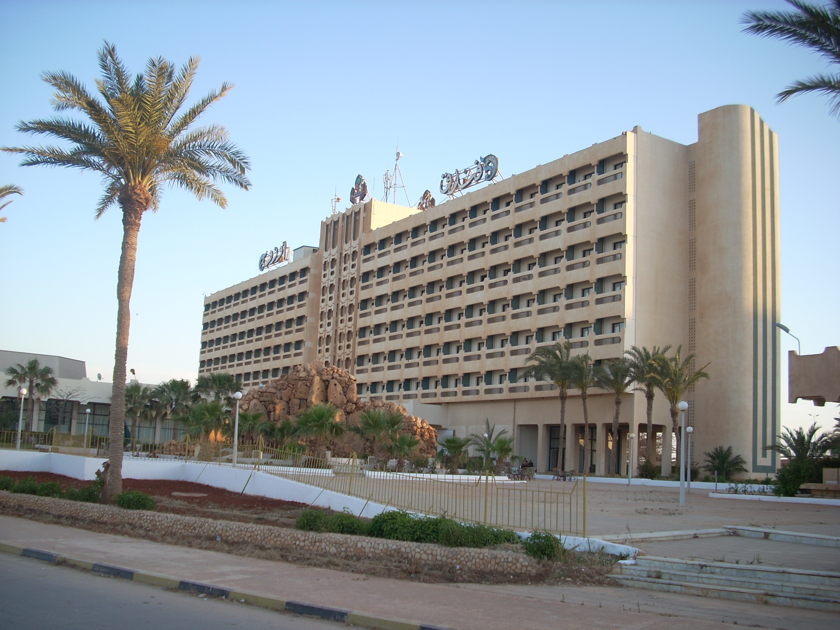 The Ouzou Hotel in Jeliana, Benghazi (Libya's second largest city)